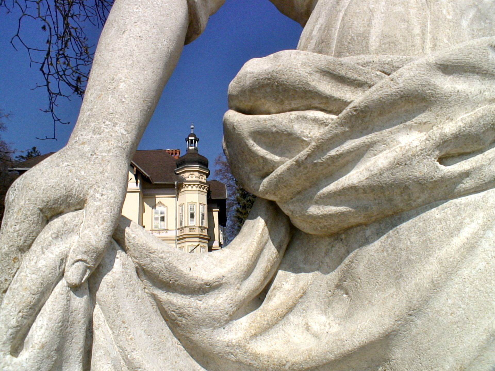 Partial view of the villa Seehort through the statue of the muse Clio, former Villa “Anton Urban”, Seehotel Kainz, designed 1893 by architect Carl Langhammer, Main Street #133, municipality Pörtschach am Wörther See, district Klagenfurt Land, Carinthia, Austria, EU